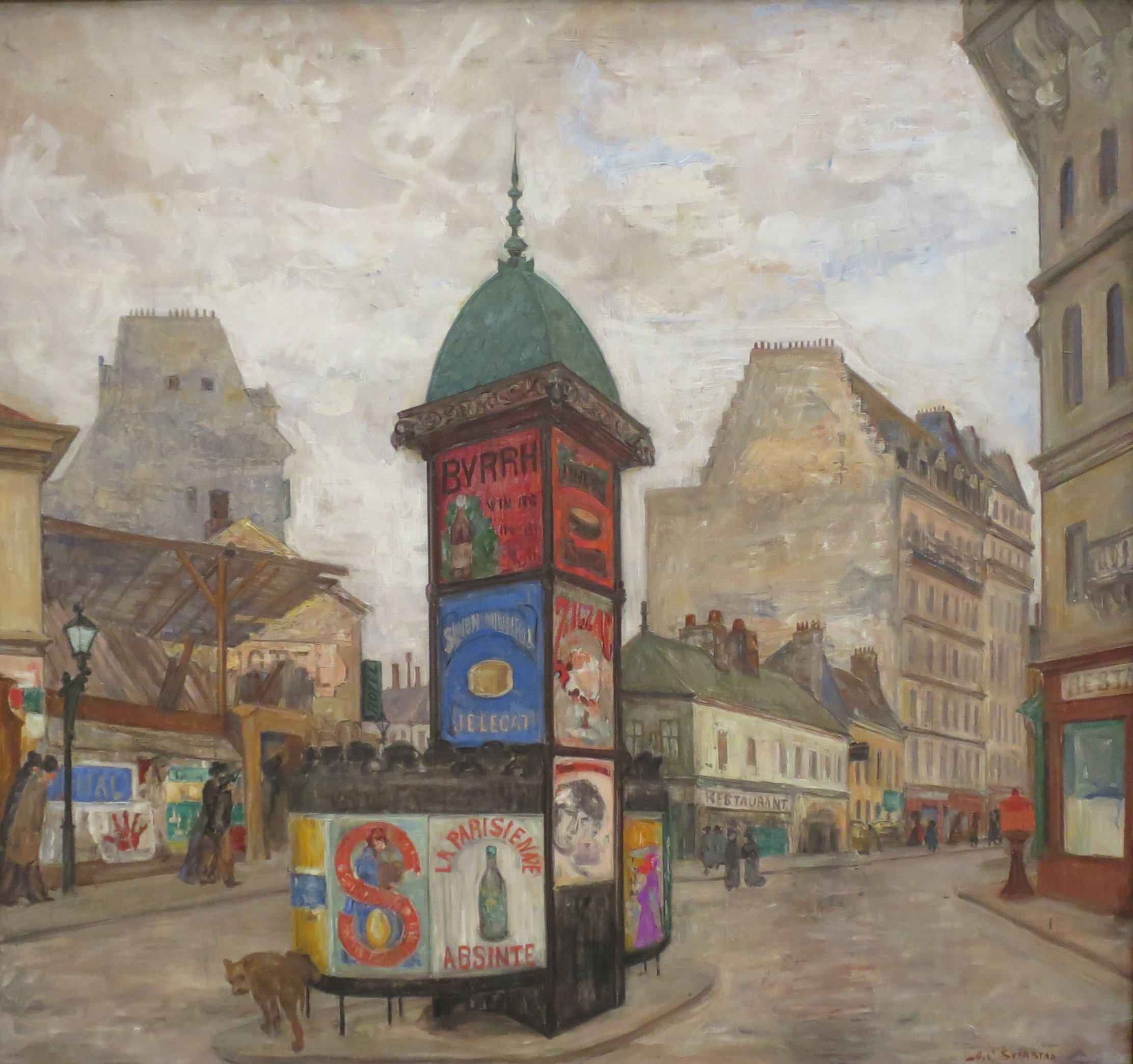 Street in Bruges by Anders Svarstad, 1910, oil on canvas, Bergen KunstmuseumNorsk bokmål: Annonsesøylen. Gateparti fra Brugge.